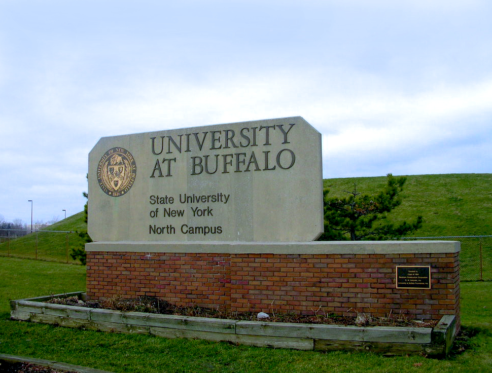 The entrance sign of SUNY Buffalo north campus.